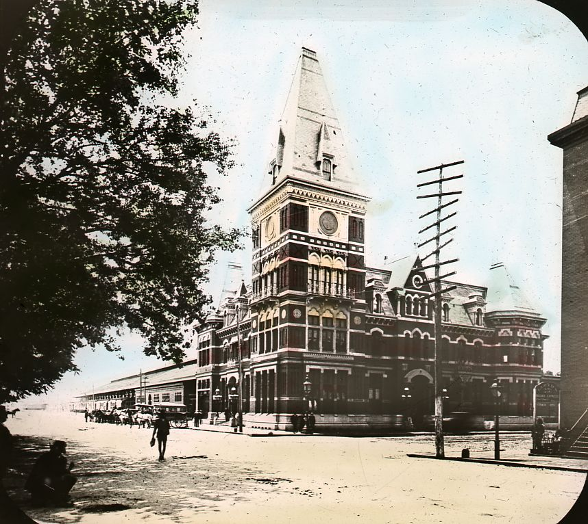 The Baltimore and Potomac Railroad Station located at 6th and Pennsylvania Avenue, NW and has sometimes been refered to as the Pennsylvania Railroad Station. Built in 1873 and was the site of President James A. Garfield's assassination in 1881. In 1903 engineer Joseph Broady left the station on an ill-fated trip to Atlanta, which was immortalized in the famous ballad "The Wreck of the Old 97." In 1907 the building was razed.